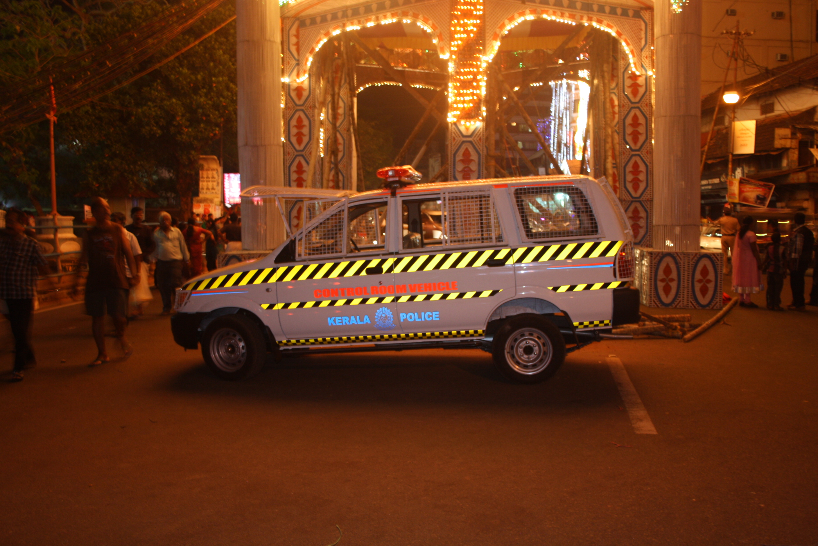 Thrissur City Police Control Room Vehicle in Thrissur city during the famous Thrissur Pooram festival.